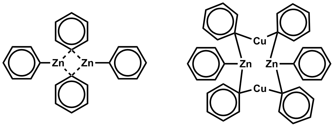 Saturated diorganozinc reagents